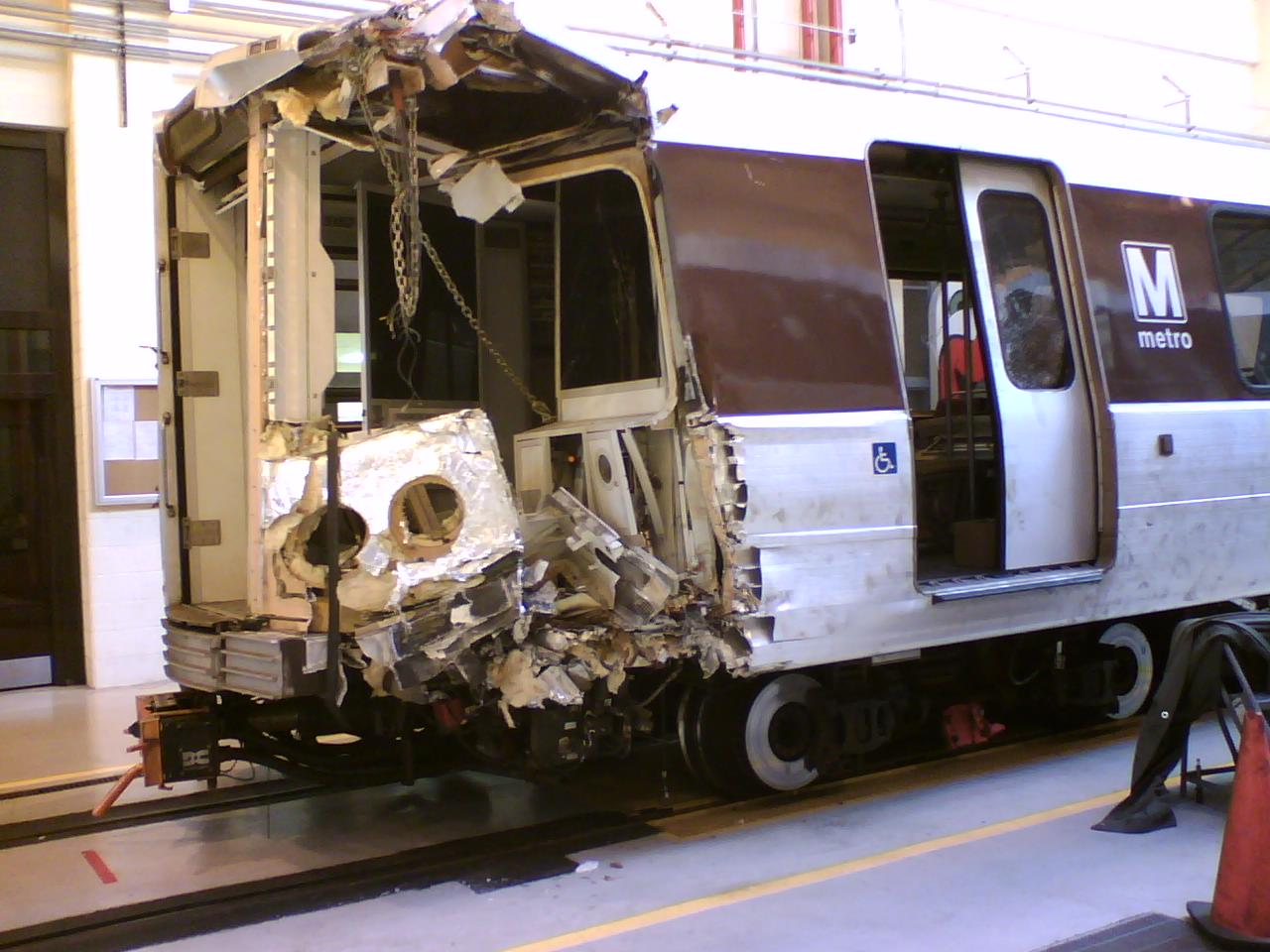 CAF 5152 following the January 7, 2007 derailment at Mt Vernon Sq/7th St-Convention Center station